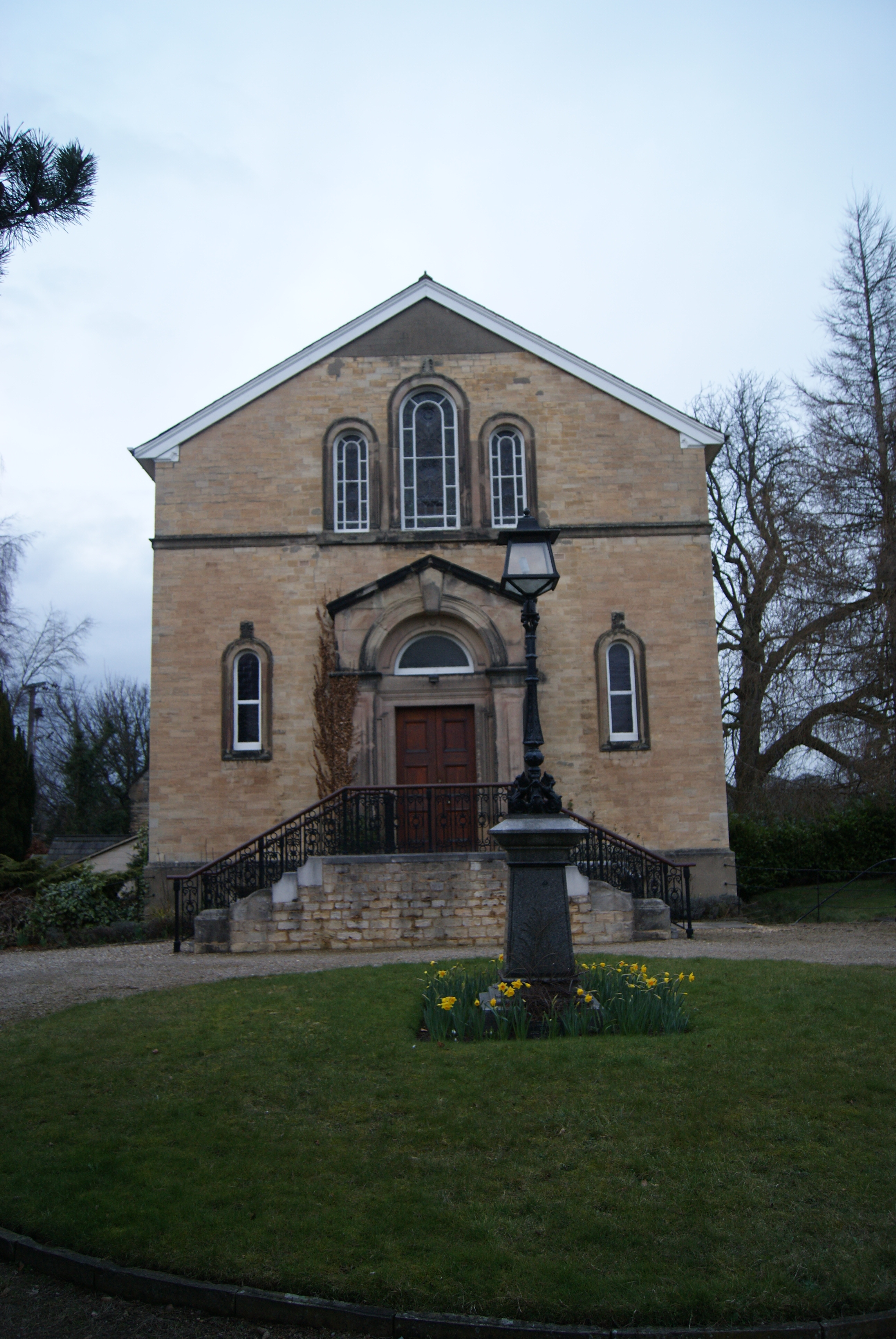 Boston Spa Methodist Church, off the High Street, Boston Spa, West Yorkshire. Taken on the evening of Wednesday the 24th of March 2010.